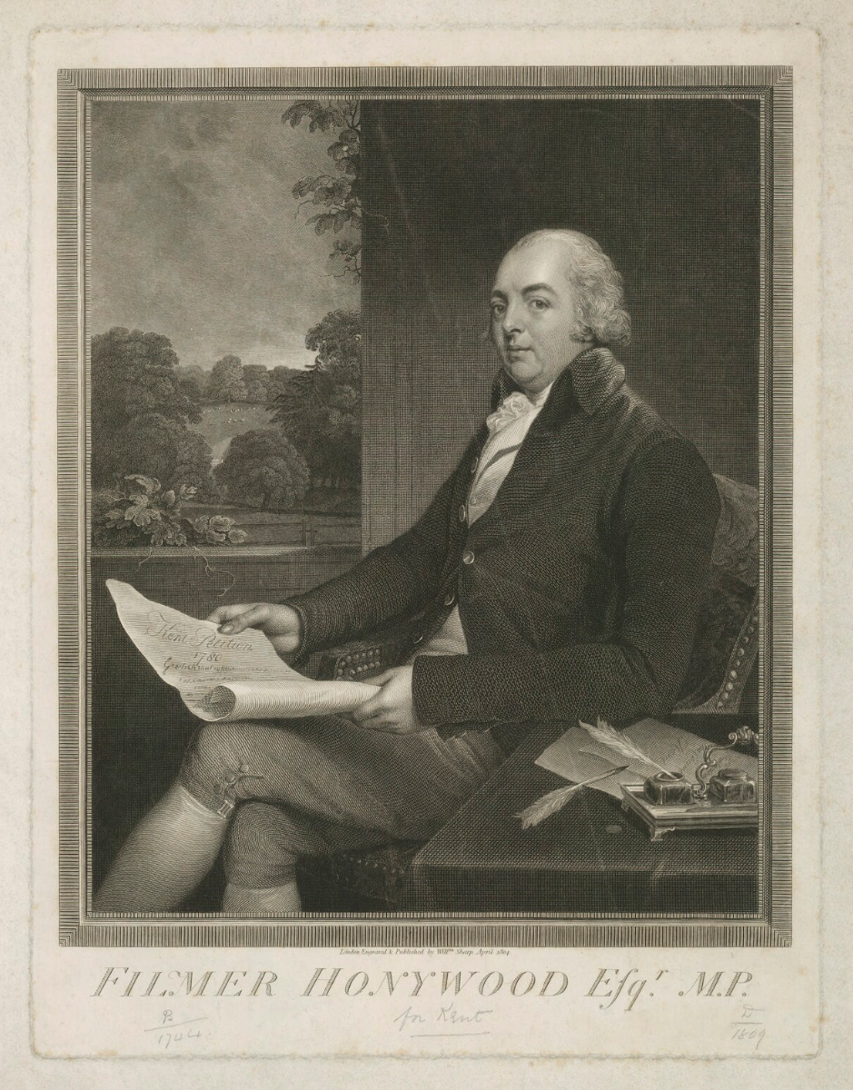 Filmer Honywood by William Sharp; line engraving, published April 1804 15 1/2 in. x 11 7/8 in. (394 mm x 301 mm) plate size; 20 1/8 in. x 14 1/2 in. (511 mm x 367 mm) paper size